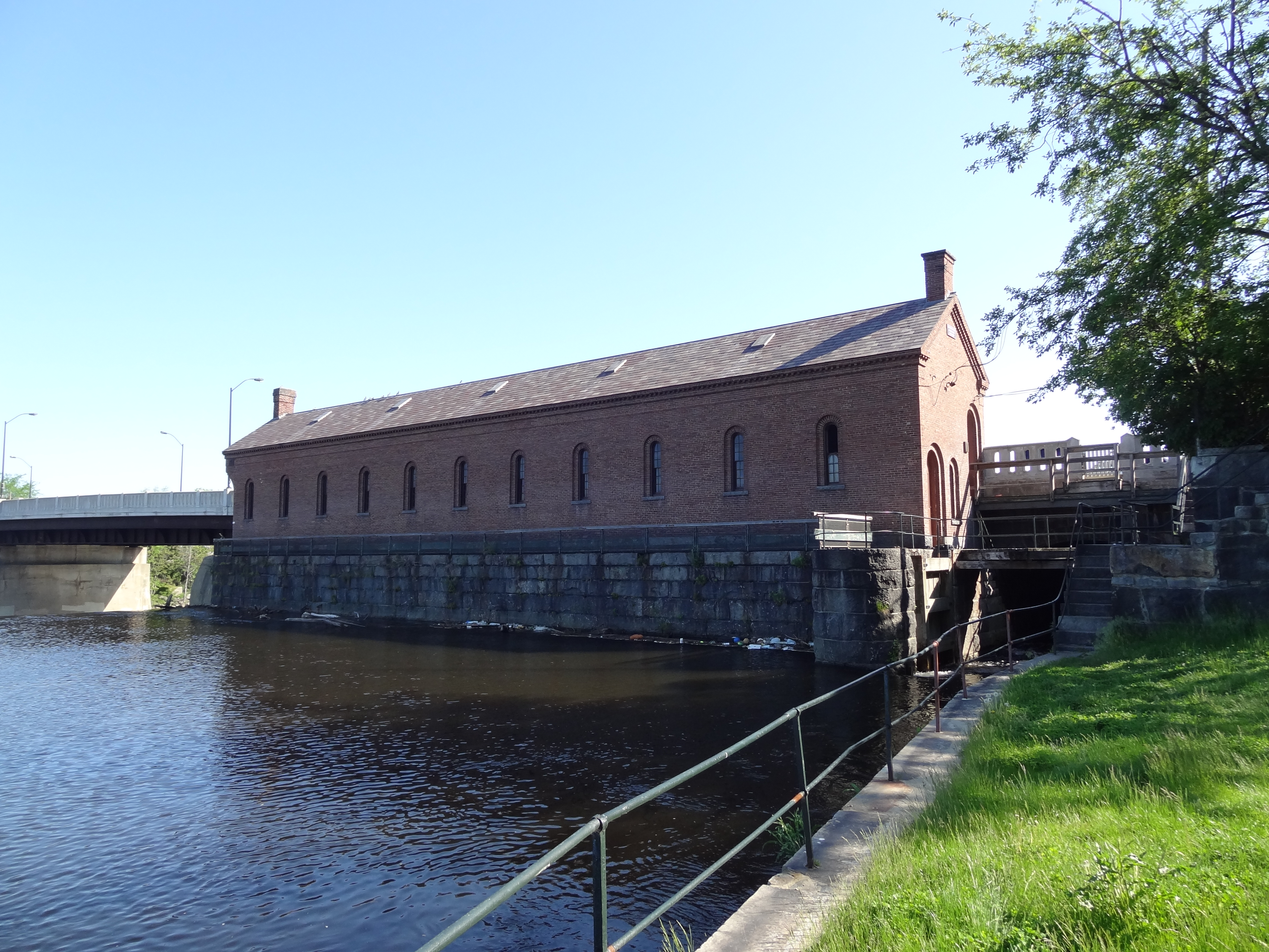 The southwest and southeast sides of the Pawtucket Gatehouse. Located near the the southeast end of the O'Donnell Bridge in Lowell, Massachusetts.